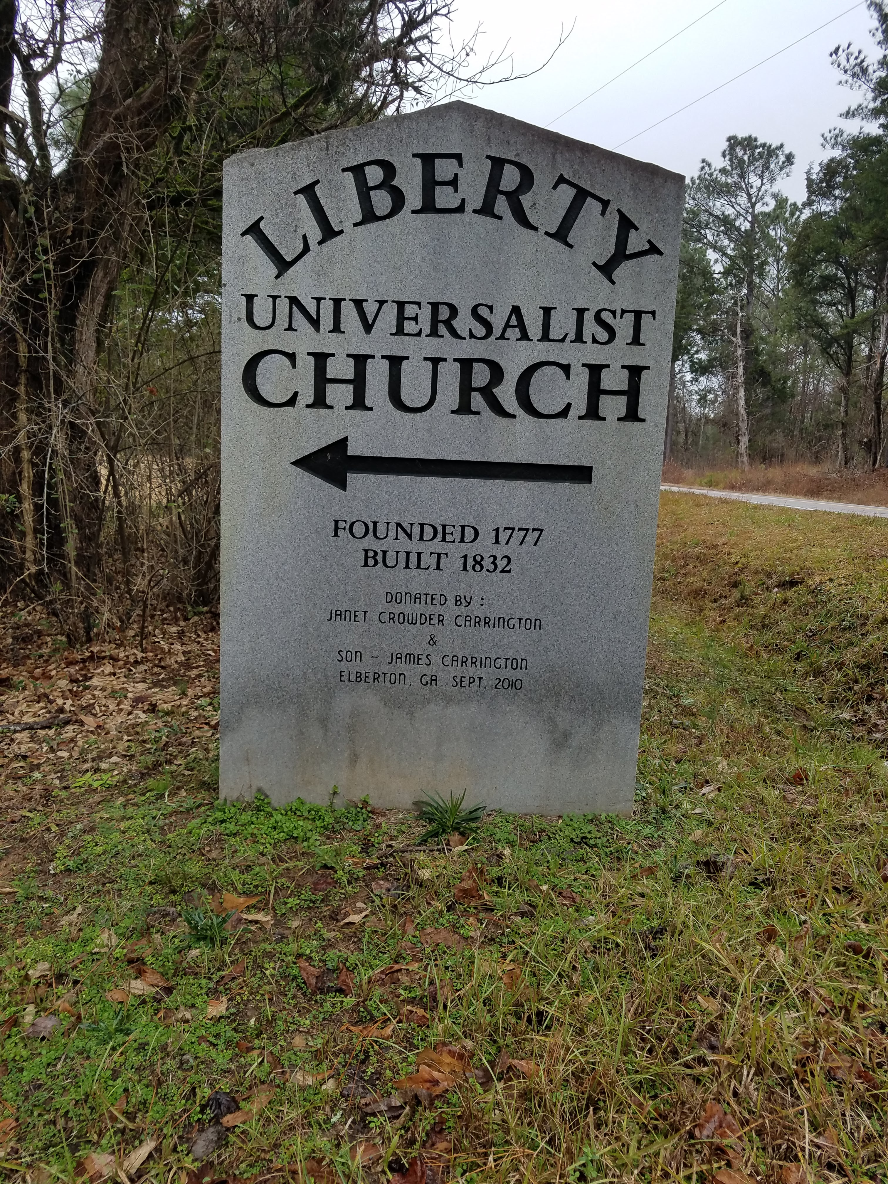 Sign to the Liberty Universalist church showing date of founding and construction of the Church building